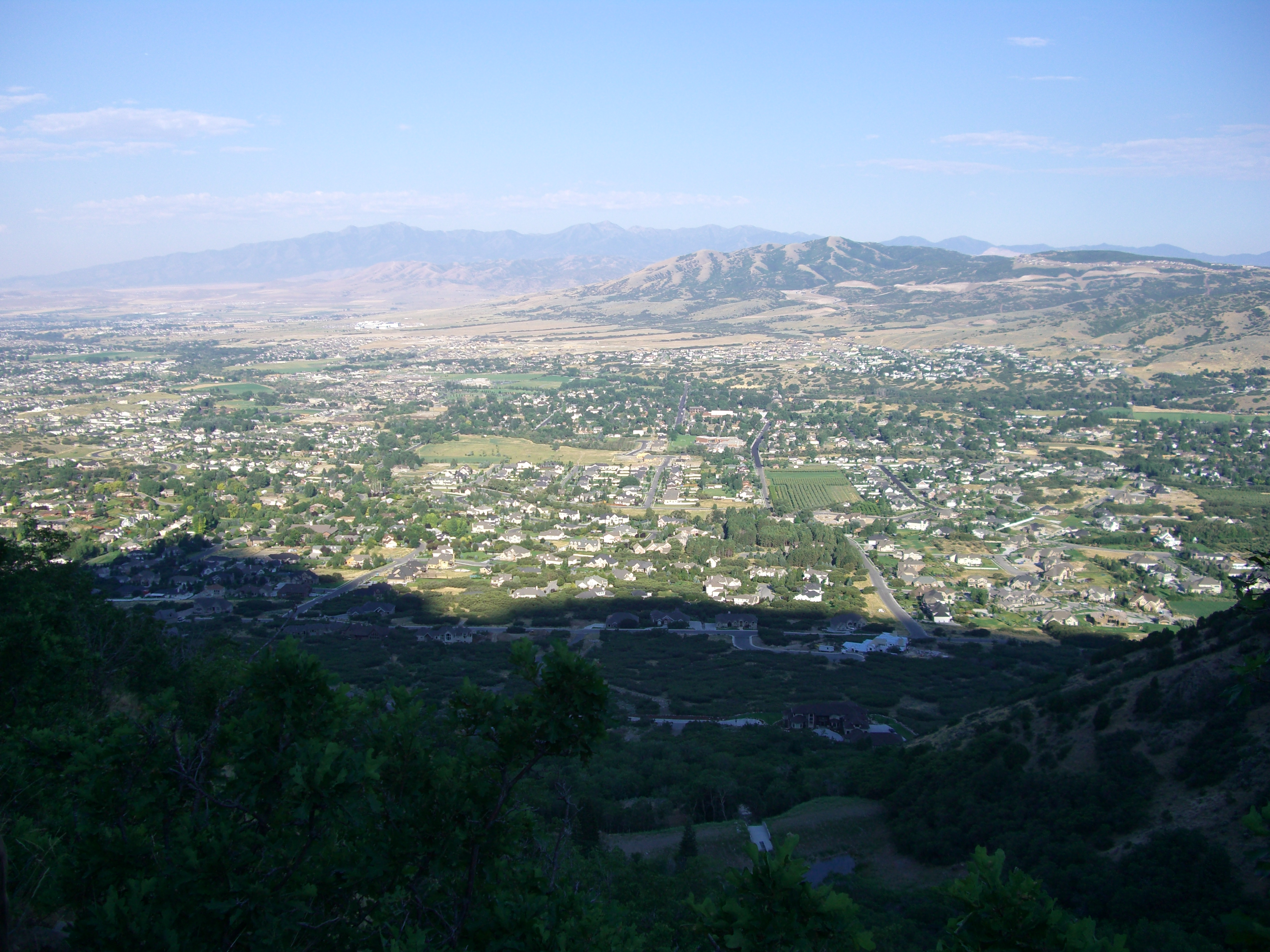 Overlooking Alpine, Utah, USA. View due west, from region of Utah State Route 92 (Wasatch Range)(aerial photo). The Oquirrh Mountains are on horizon; the Traverse Mountains are right. (intervening peak is South Mountain, 6829 ft (DeLorme Atlas, Utah), west of city-centers and north flowing Jordan River (Utah), from Utah Lake.)